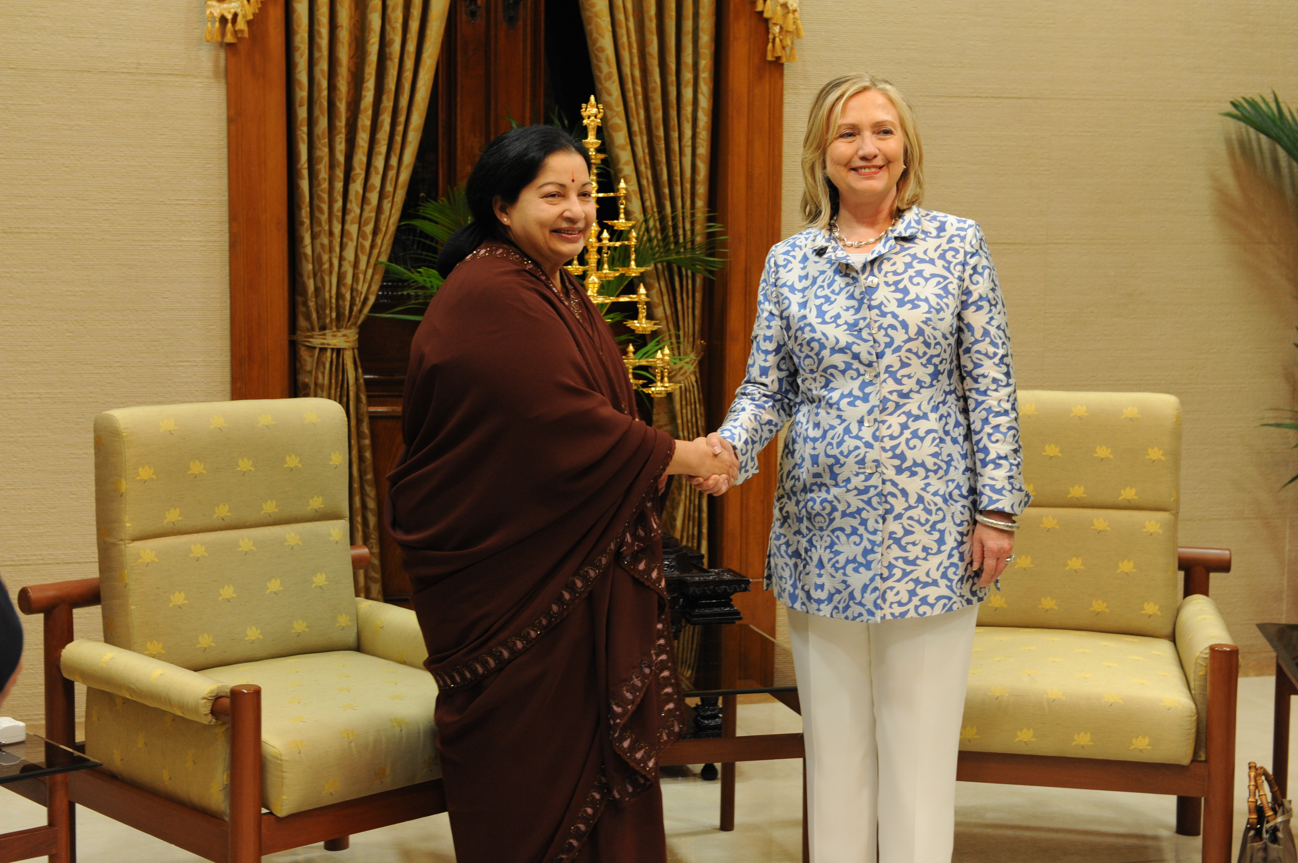 U.S. Secretary of State Hillary Rodham Clinton and Tamil Nadu Chief Minister Jayalalithaa shake hands at the Chief Minister’s office in Chennai, India, on July 20, 2011.